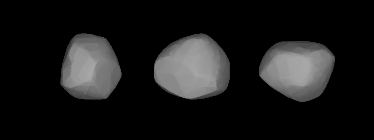 A three-dimensional model of 1572 Posnania that was computed using light curve inversion techniques.